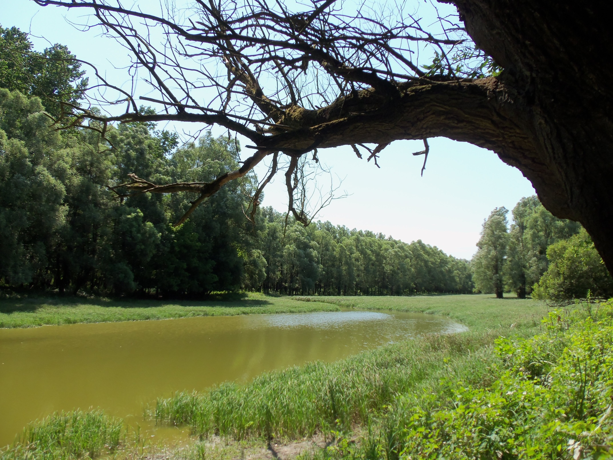 Oxbow lake at Lassi in Gemenc forest, Hungary